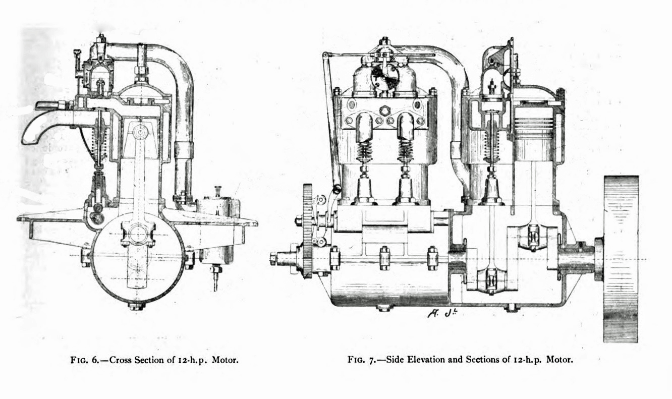 1902 Daimler 12 engine cross-section and elevation